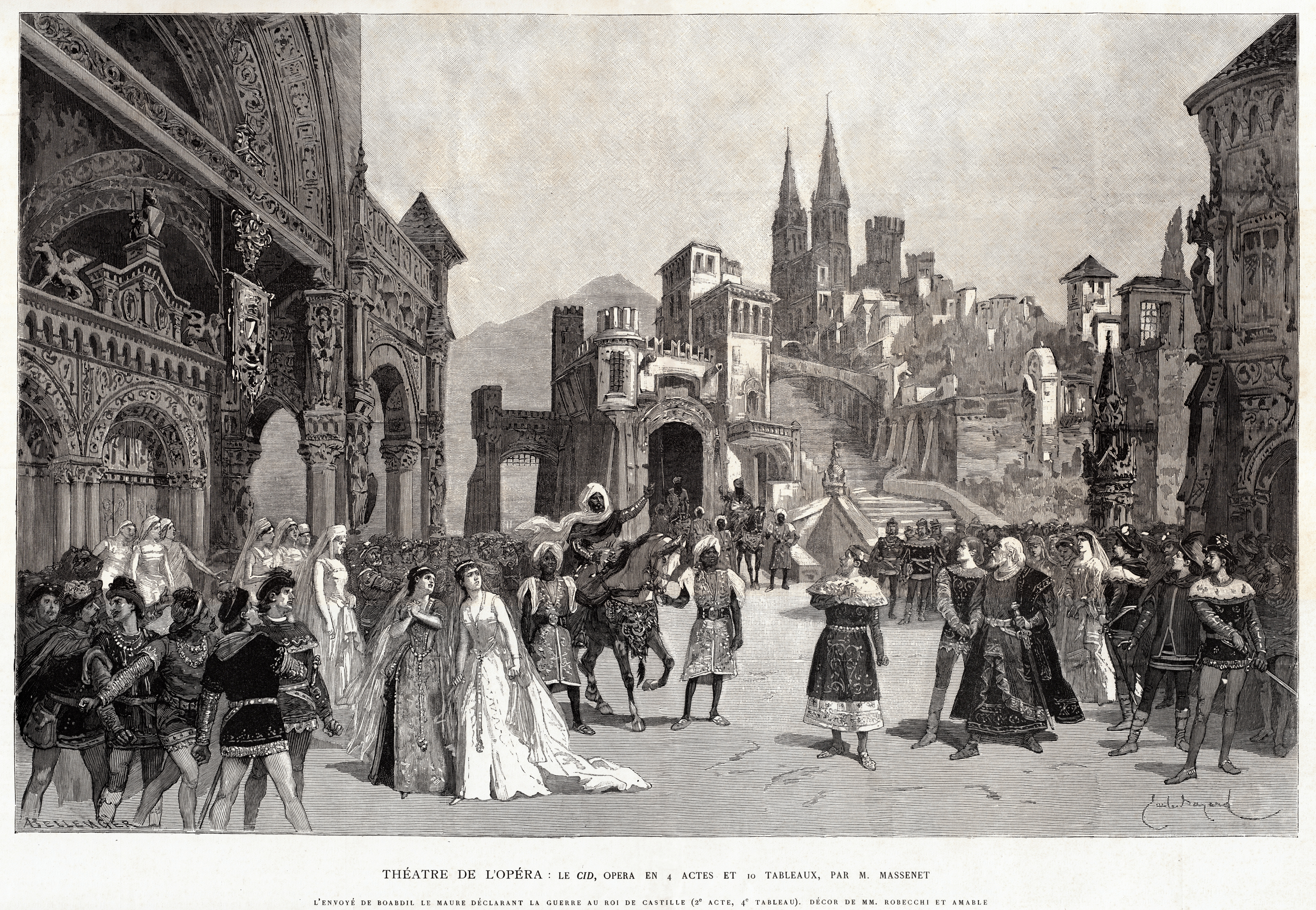 Act 2, Scene 4 of Jules Massenet's Le Cid, as seen in the 5 Décembre 1885 issue of L'Illustration covering its première held on November, 30, 1885. The Envoy of Boabdil of the Moors declares war with the King of Castille